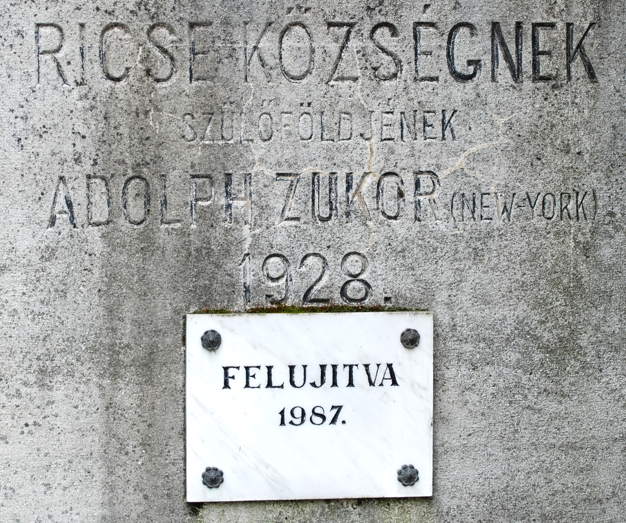 Sheperd Well Inscriprion - The inscription over the well which is one of the sights of Ricse, a Hungarian village. The well was given to the village by Adolph Zukor, who was born in Ricse. The translation of the inscription: "For the village of Ricse, for his homeland, Adolph Zukor (New York) 1928. Renovated in 1987."